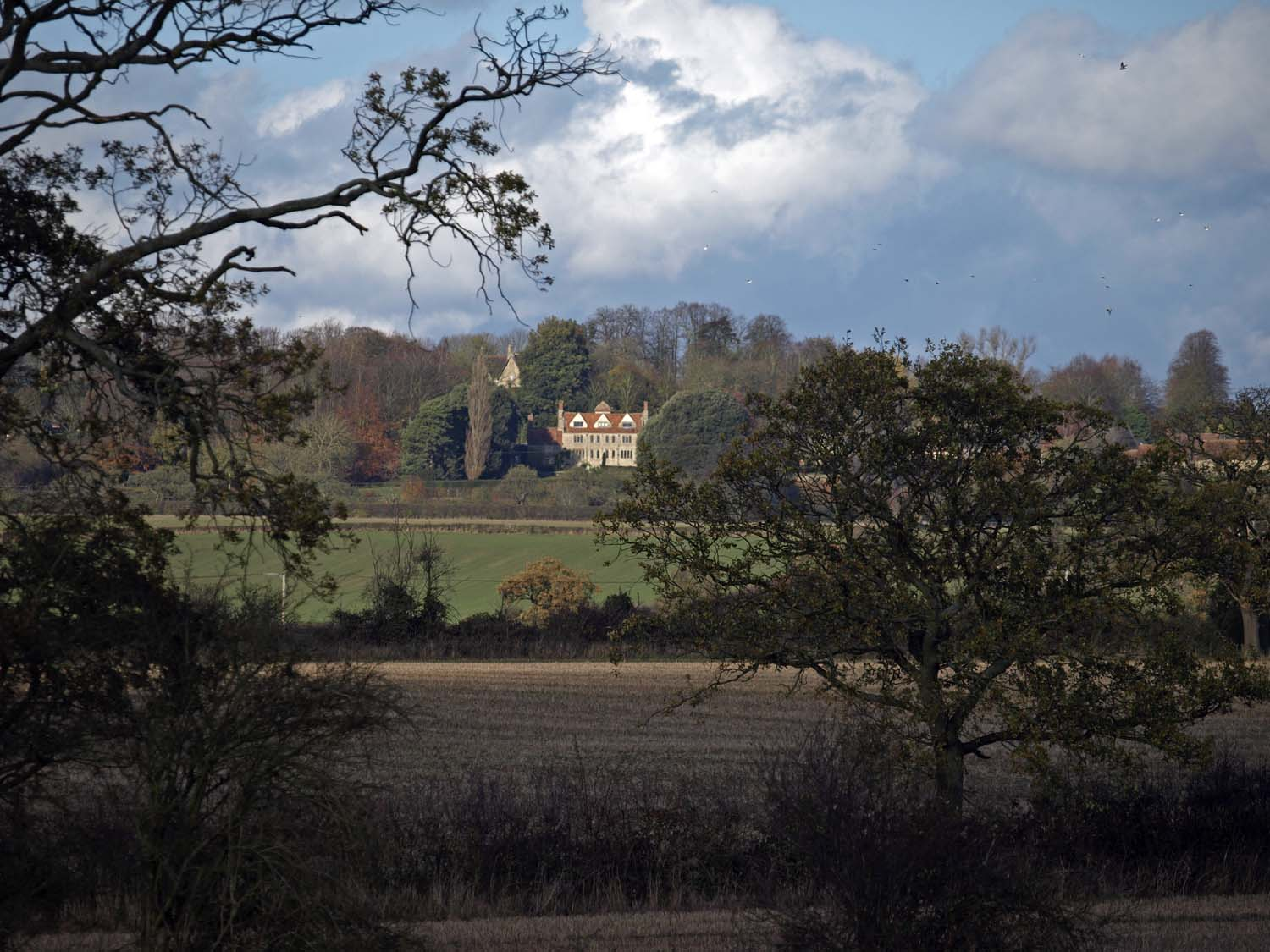 Garsington Manor